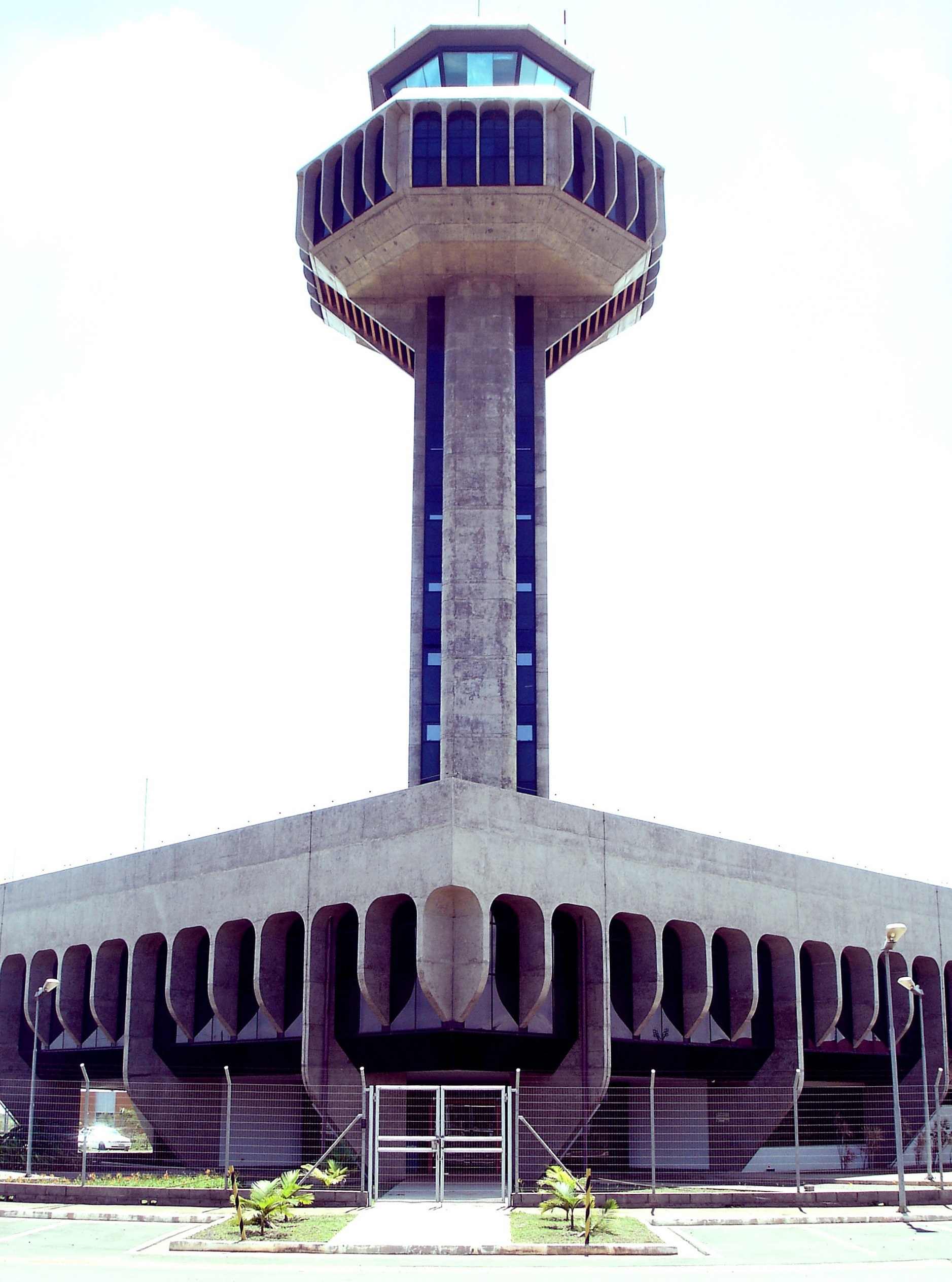 Viracopos Airport Tower - Campinas, Brazil